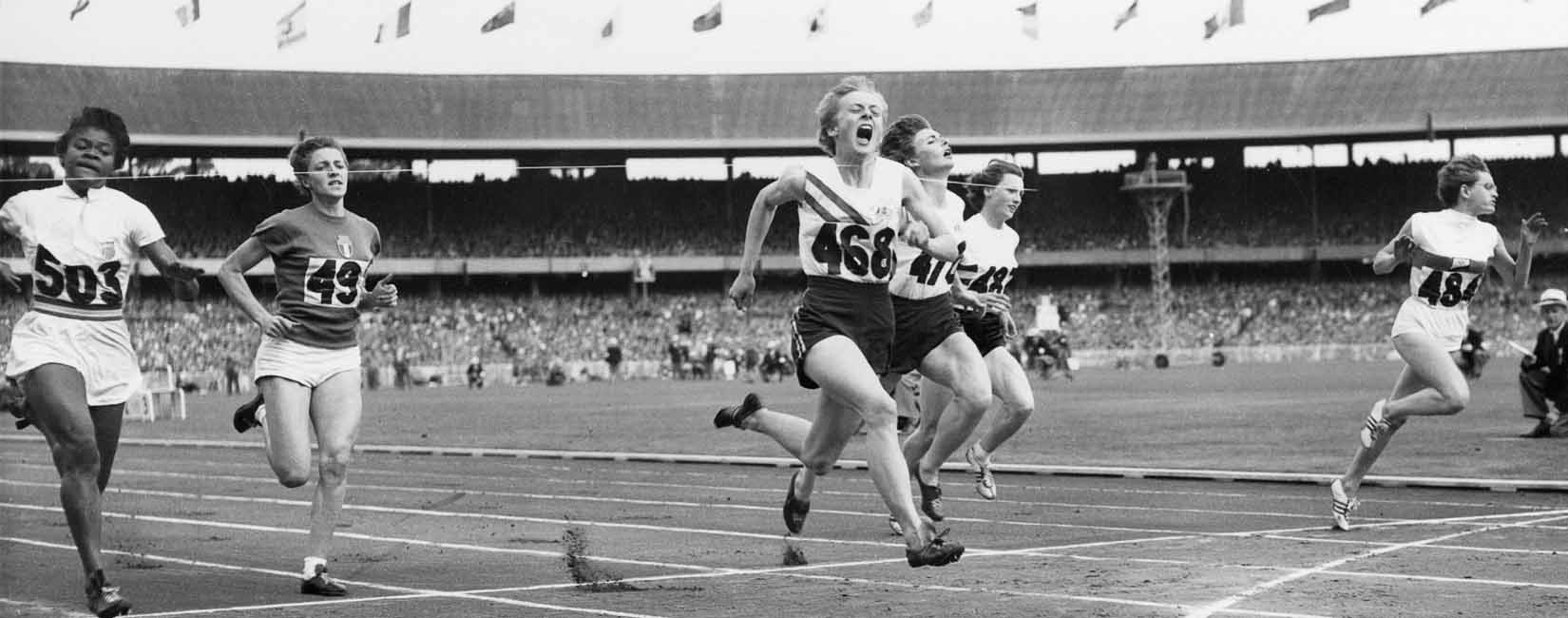 Women's 100 m final at the 1956 Olympics. Left-right: Isabelle Daniels, Giuseppina Leone, Betty Cuthbert, Marlene Mathews, Heather Armitage, Christa Stubnick